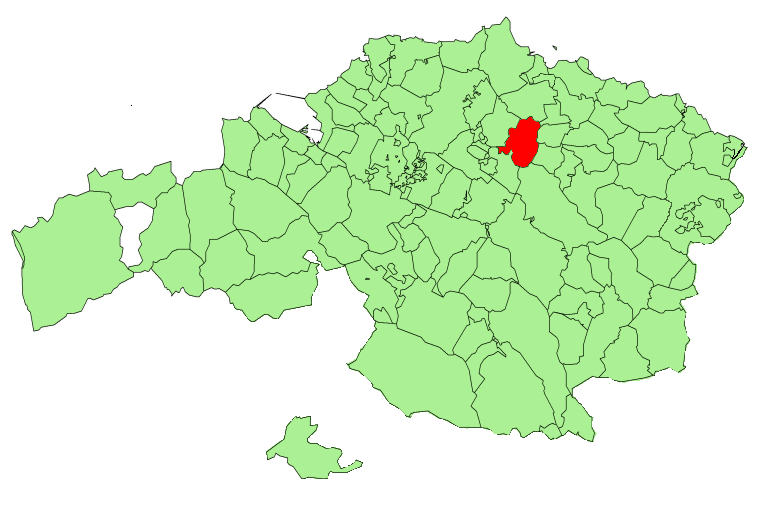 Errigoiti municipality in the province of Biscay